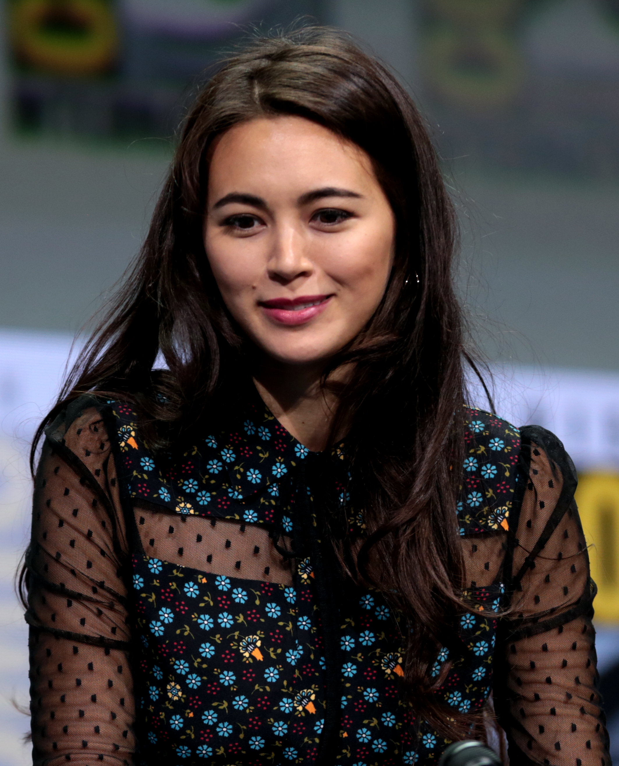 Jessica Henwick speaking at the 2017 San Diego Comic Con International, for "Marvel's The Defenders", at the San Diego Convention Center in San Diego, California.